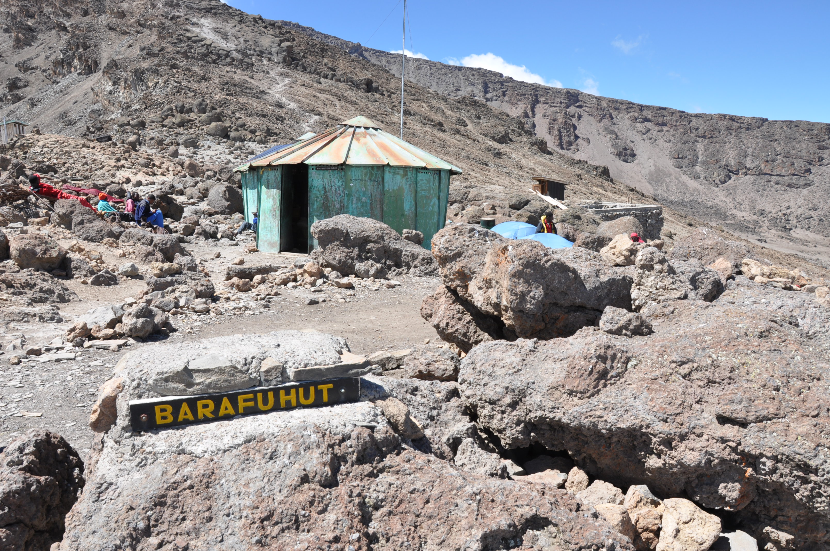 Barafu is the Swahili word for "ice" and it is a bleak and inhospitable camping area to spend the night. Totally exposed to the ever-present gales the tents are pitched on a narrow, stony, and dangerous ridge. Make sure that you familiarise yourself with the terrain before dark to avoid any accidents. The summit is now a further 1345m up and you will make the Barafu Tent Camp final ascent the same night. Prepare your equipment, ski stick and thermal clothing for your summit attempt. This should include the replacement of your headlamp and camera batteries and make sure you have a spare set available as well. To prevent freezing it will be wise to carry your water in a thermal flask. Go to bed at round about 19h00 and try to get some precious rest and sleep